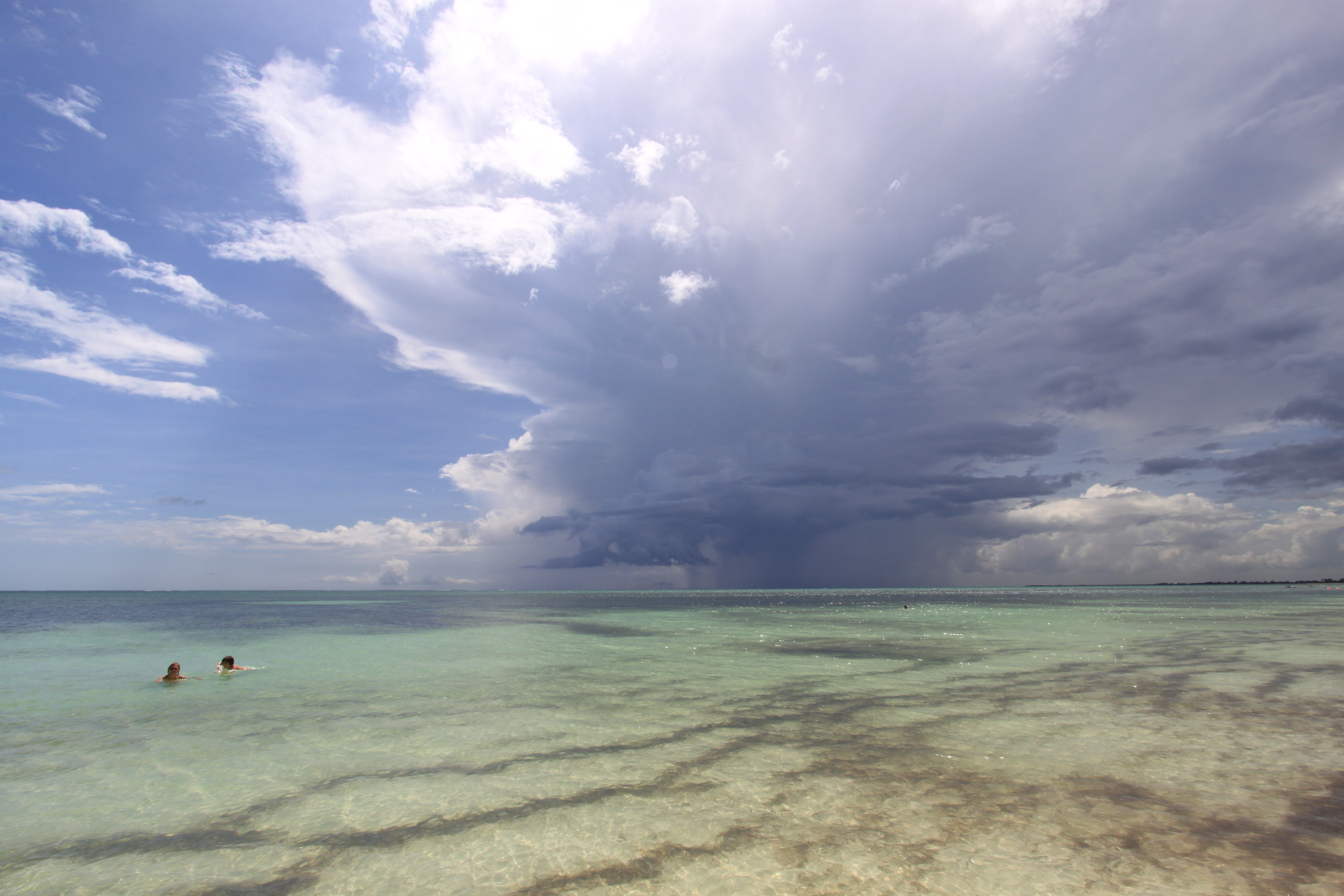 Hurrcane Irene seen from Cuba, Playa St. Lucia